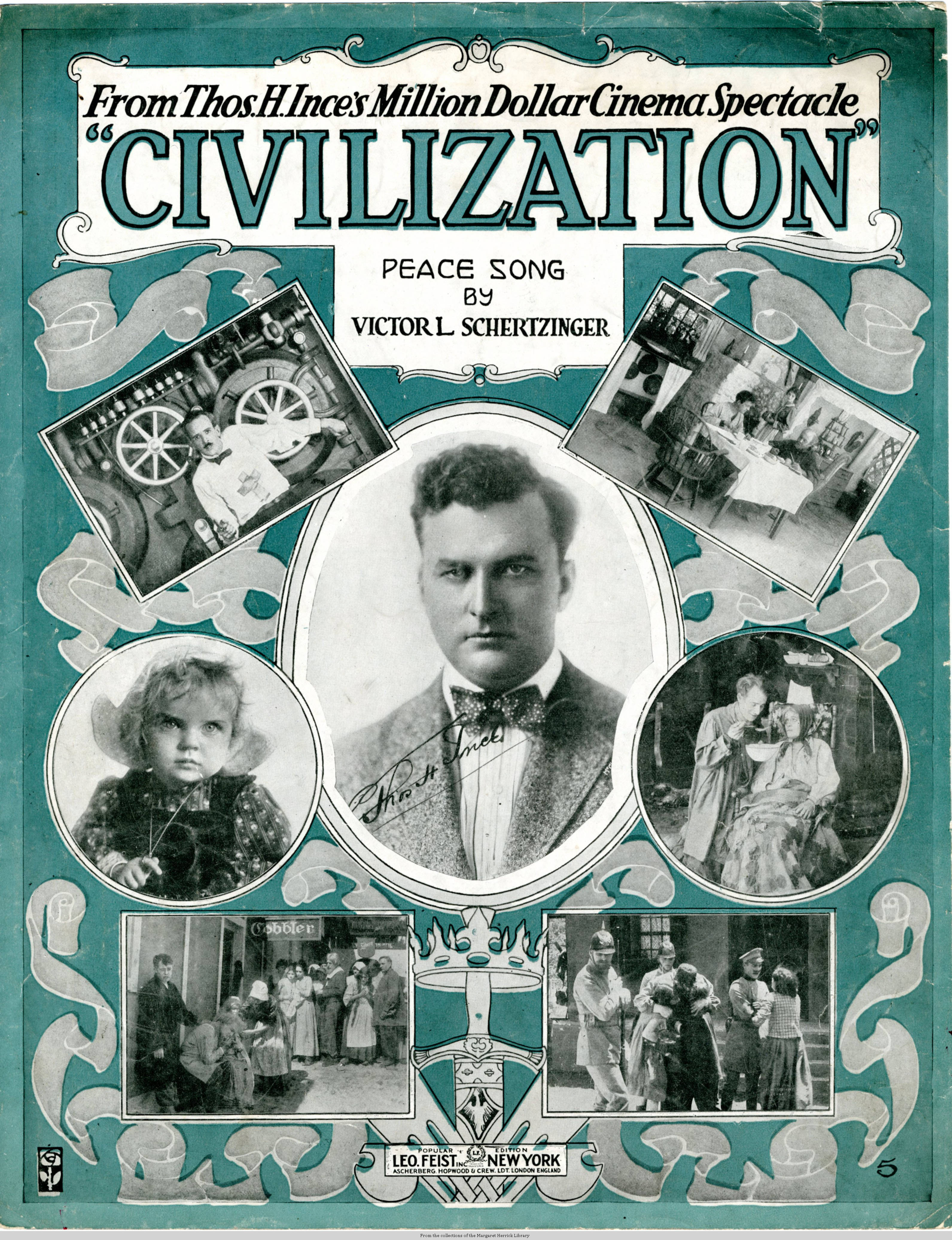 Sheet music cover: "Peace Song" 1 vocal score (3 p.) ; 35 cm. Illustrated cover with image of Thomas H. Ince. CIVILIZATION (Motion picture : 1916)